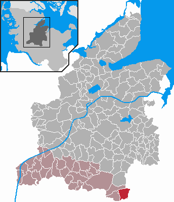 Locator maps of municipalities in Schleswig-Holstein - District Rendsburg-Eckernförde